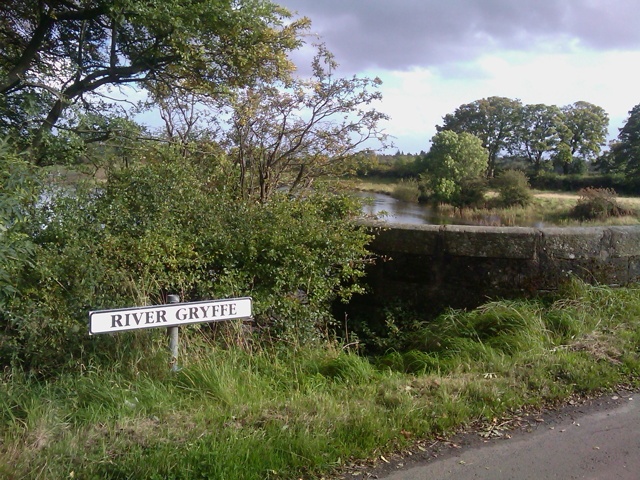 The River Gryffe at Moss Road outside Houston, Renfrewshire, UK.